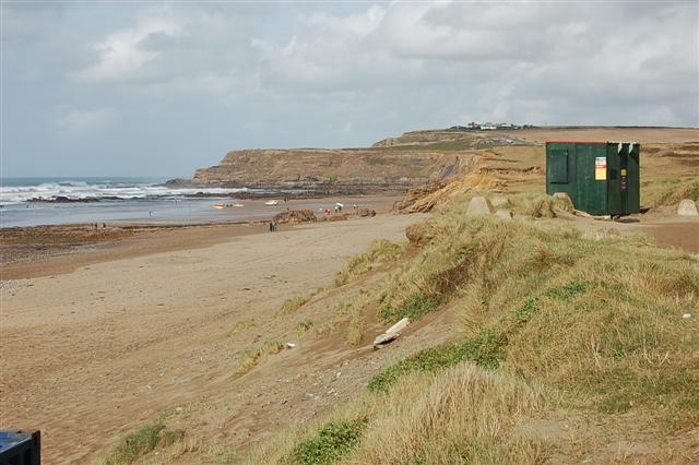 Widemouth Sand Looking north.